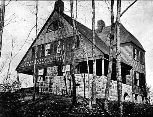 "William Kent residence, Tuxedo Park, N.Y.; Bruce Price, architect, 1886."